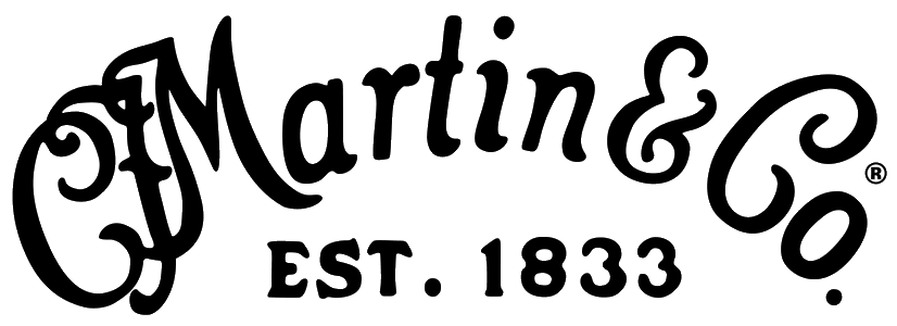 Logo for the C.F. Martin & Co., a guitar manufacturer from the USA.